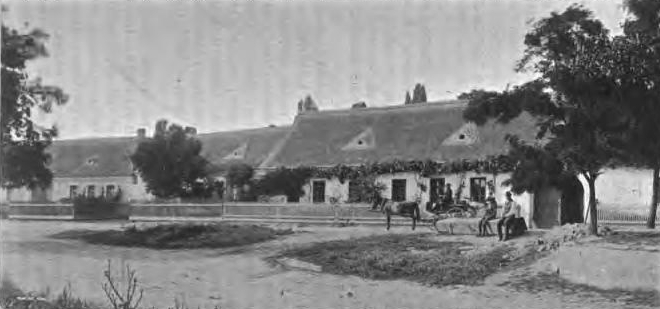 Kuchařovice (okres Znojmo) - Text pod obrázkom v knihe - Selské statky v Kuchařovicích.